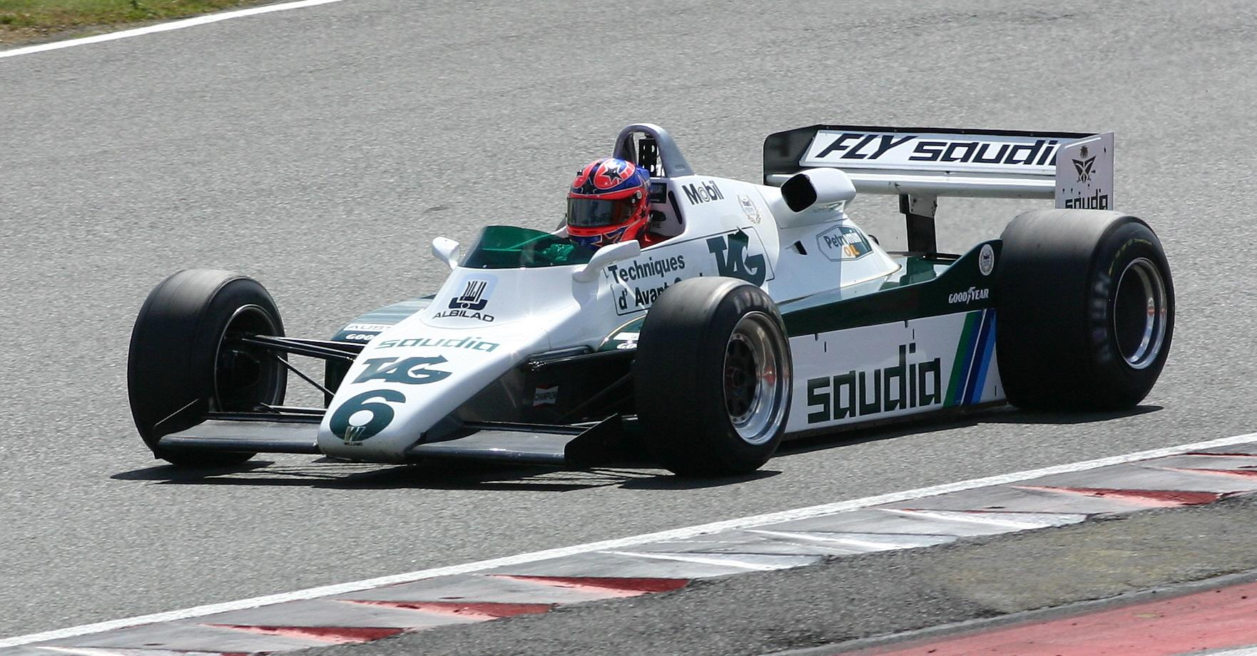 The Williams FW08 at the 2008 Silverstone Classic race meeting.